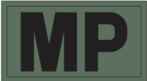 U.S. Army Military Police brassard